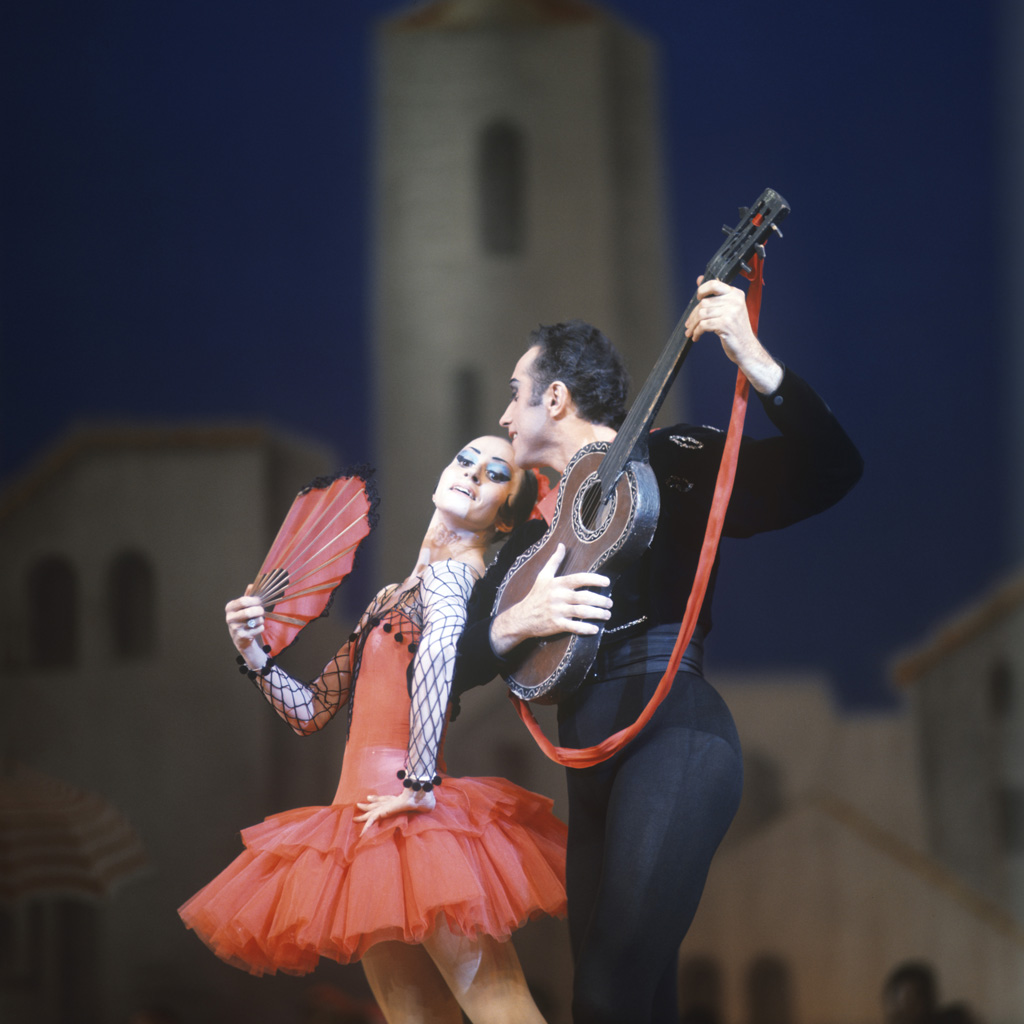 “Natalya Bessmertnova and Vladimir Tikhonov performing at Bolshoi Theater”. Natalya Bessmertnova as Kitri and Vladimir Tikhonov as Basilio in a scene from Ludwig Minkus' ballet Don Quixote staged at the State Academic Bolshoi Theater of the USSR.